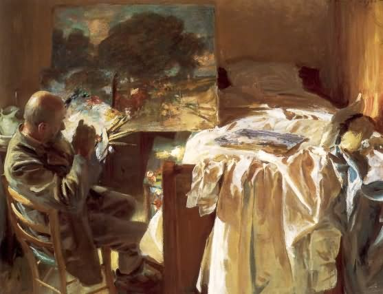 Self-Portrait